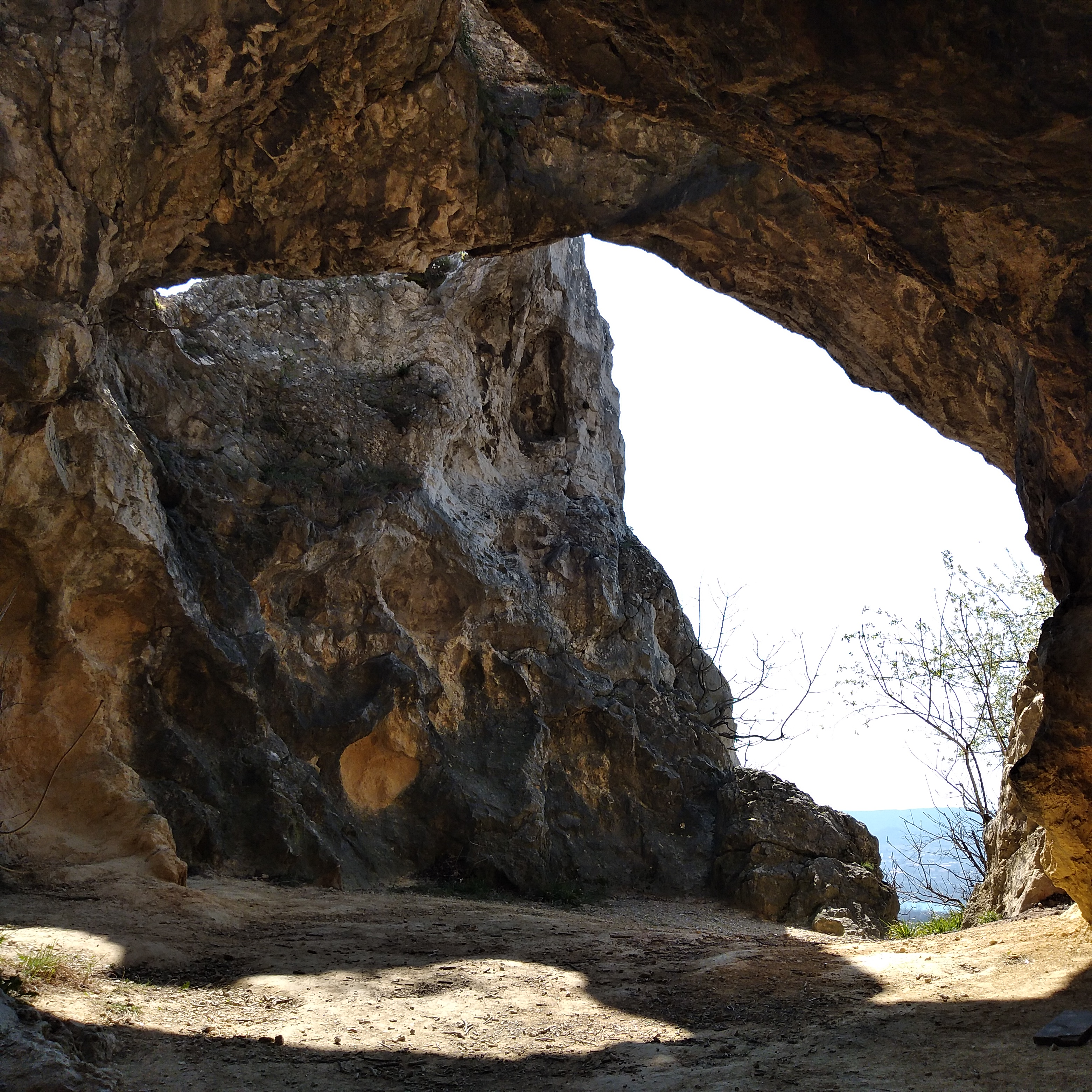 From within entrance section of Strázsa-hegyi Cave in Esztergom.